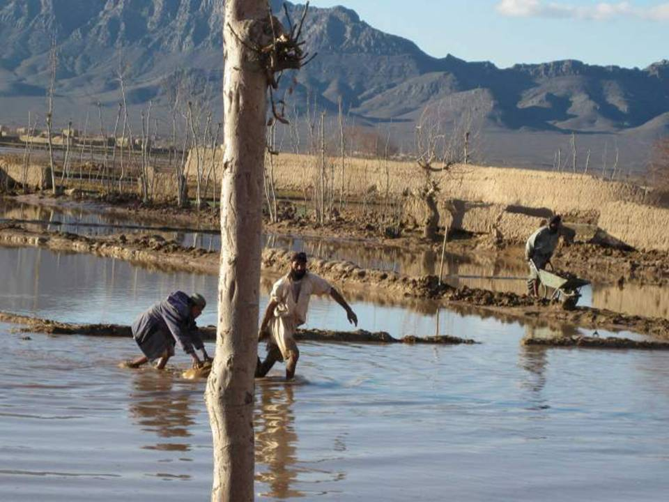 ZERKO VALLEY, Afghanistan – Afghan villagers affected by the flood in the Herat and Shindand district area Feb. 4. (U.S. Air Force photo)